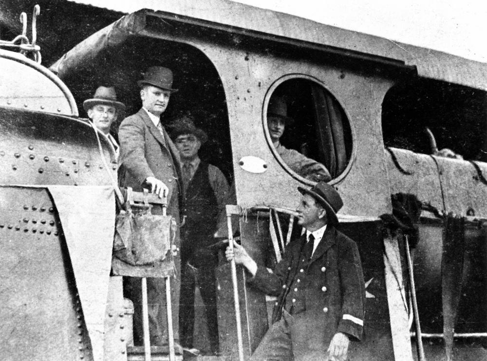 Frank Forde pilots a train into Brisbane, 1930. Francis Michael Forde was the Acting Minister for Markets and Transport when he piloted this train into Brisbane. Frank Forde was Prime Minister for only eight days, July 6 to 13 1945, after the death of John Curtin. With unswerving loyalty to his party and its leadership, Forde was a federal parliamentarian for 24 years. For 14 years he was deputy leader of the federal parliamentary Labor Party, and for nine of those years was deputy Leader of the Opposition.Forde was Minister for Trade and Customs in 1931, during the government of James Scullin, and Minister for the Army from 1941 to 1946, during the governments of John Curtin and Ben Chifley.